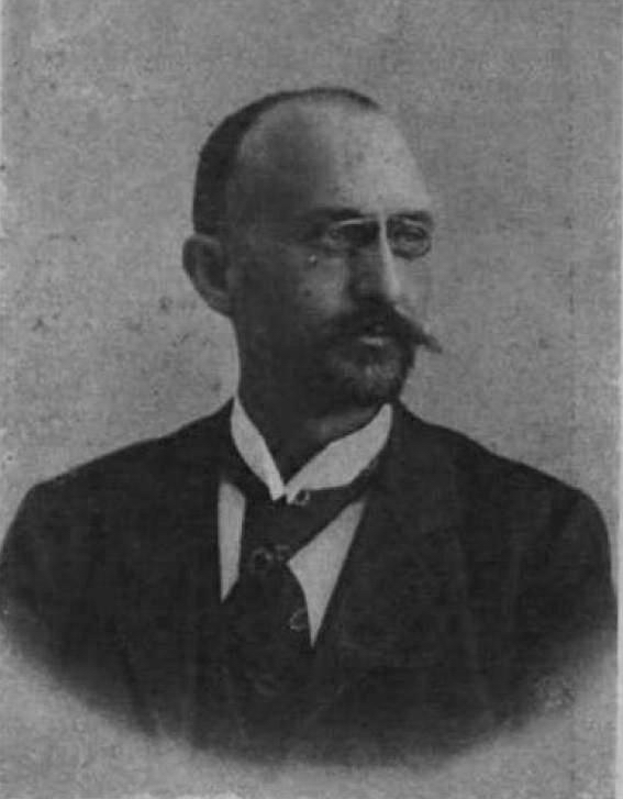 Gusztáv Beksics